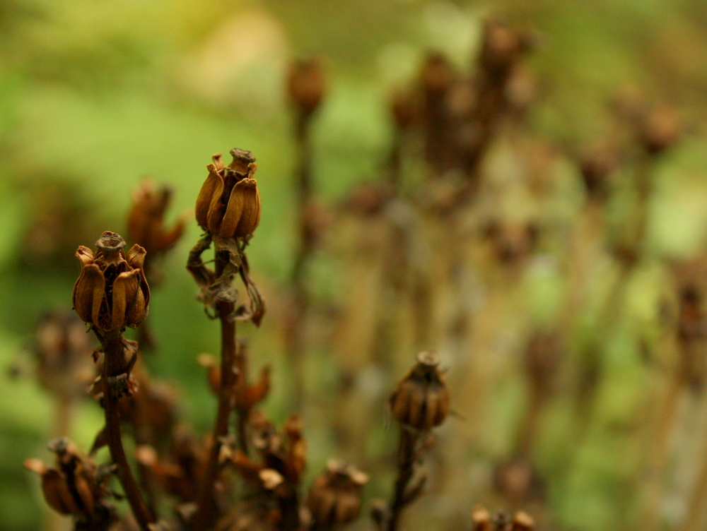 Since the campground is closed, the lane and pads that used to be where car campers drove and park are deserted, adding a slightly...post-apocalyptic and/or horror movie type feel to that section of the park (if you tend towards the dramatic). I was therefore not surprised to run into a patch of the creepy Indian Pipe (Monotropa uniflora) that I'd first met on another creepy hike ( The dead ones are decidedly Edward Gorey-esque or look like a decoration that would top a Victorian cupola.